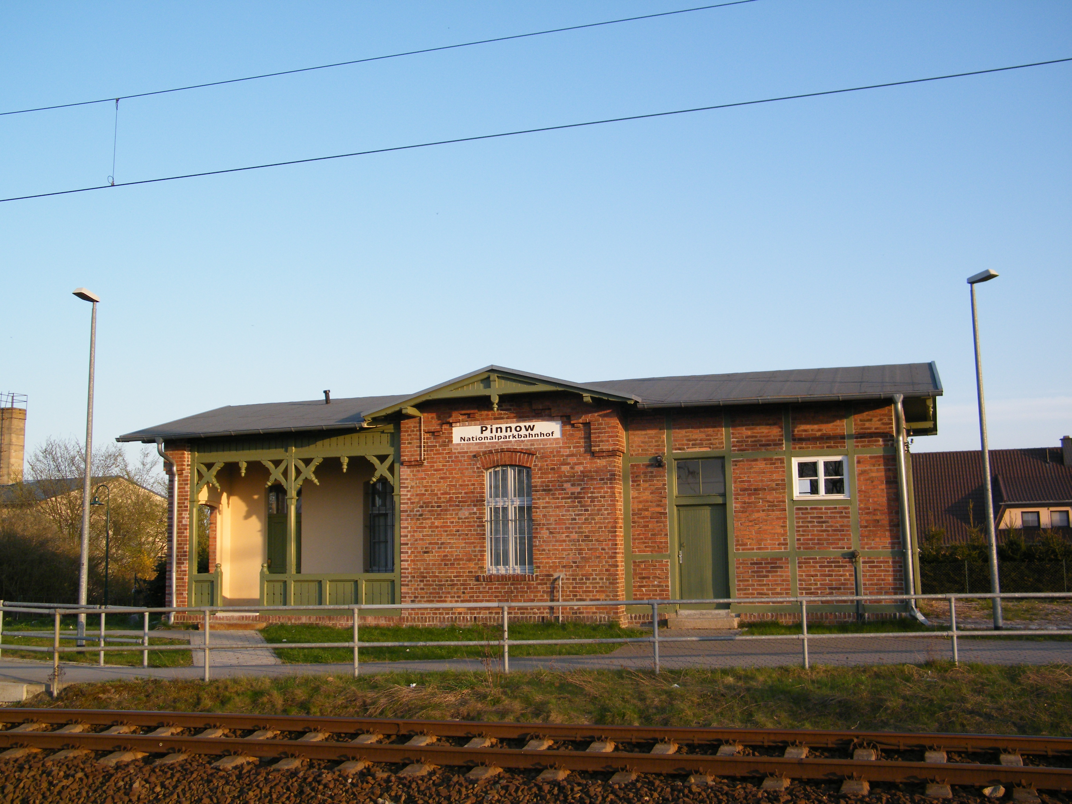 Station building in Pinnow, near Angermünde, Germany